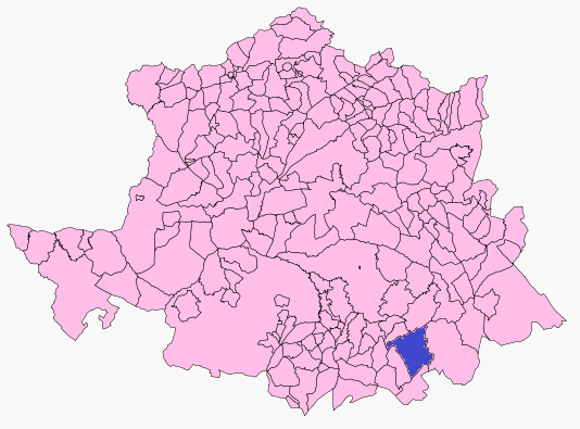 Zorita